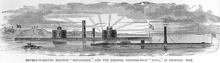 A slightly cropped image of the USS Napa and the USS Monadnock from an engraving published in "The Soldier in Our Civil War", Volume II, page 226.